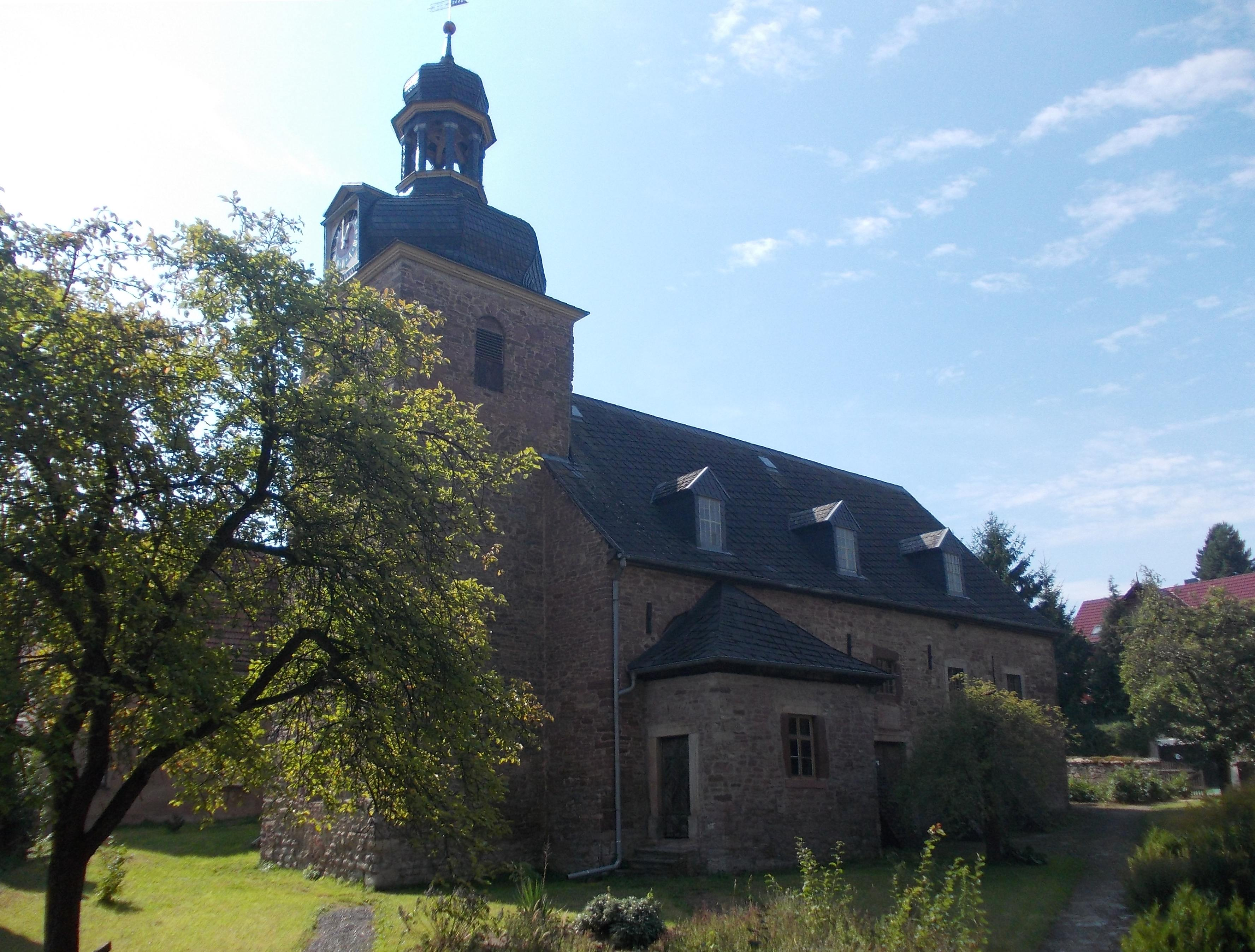 Obersdorf church (Sangerhausen, Mansfeld-Südharz district, Saxony-Anhalt)